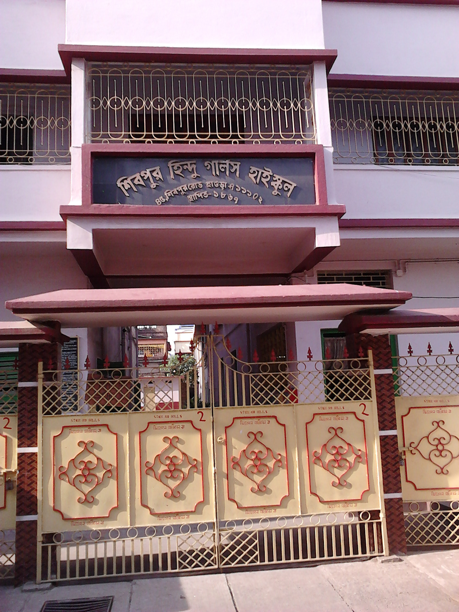 Sibpur Hindu Girls School is under West Bengal Board of Secondary Education (WBBSE) in Bengali medium high school for girls, established on 1867.